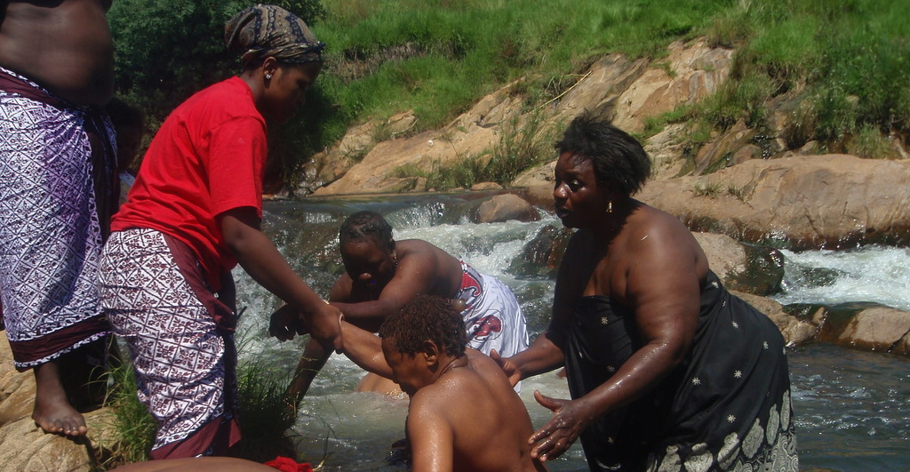 N'anga Initiation Baptism in River